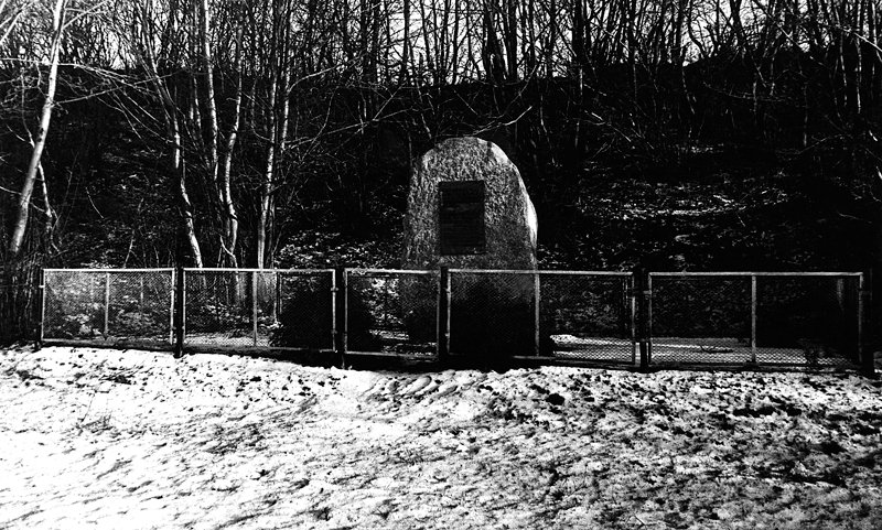 Memorial of the executed Tauragė Revolt of 1927 participants